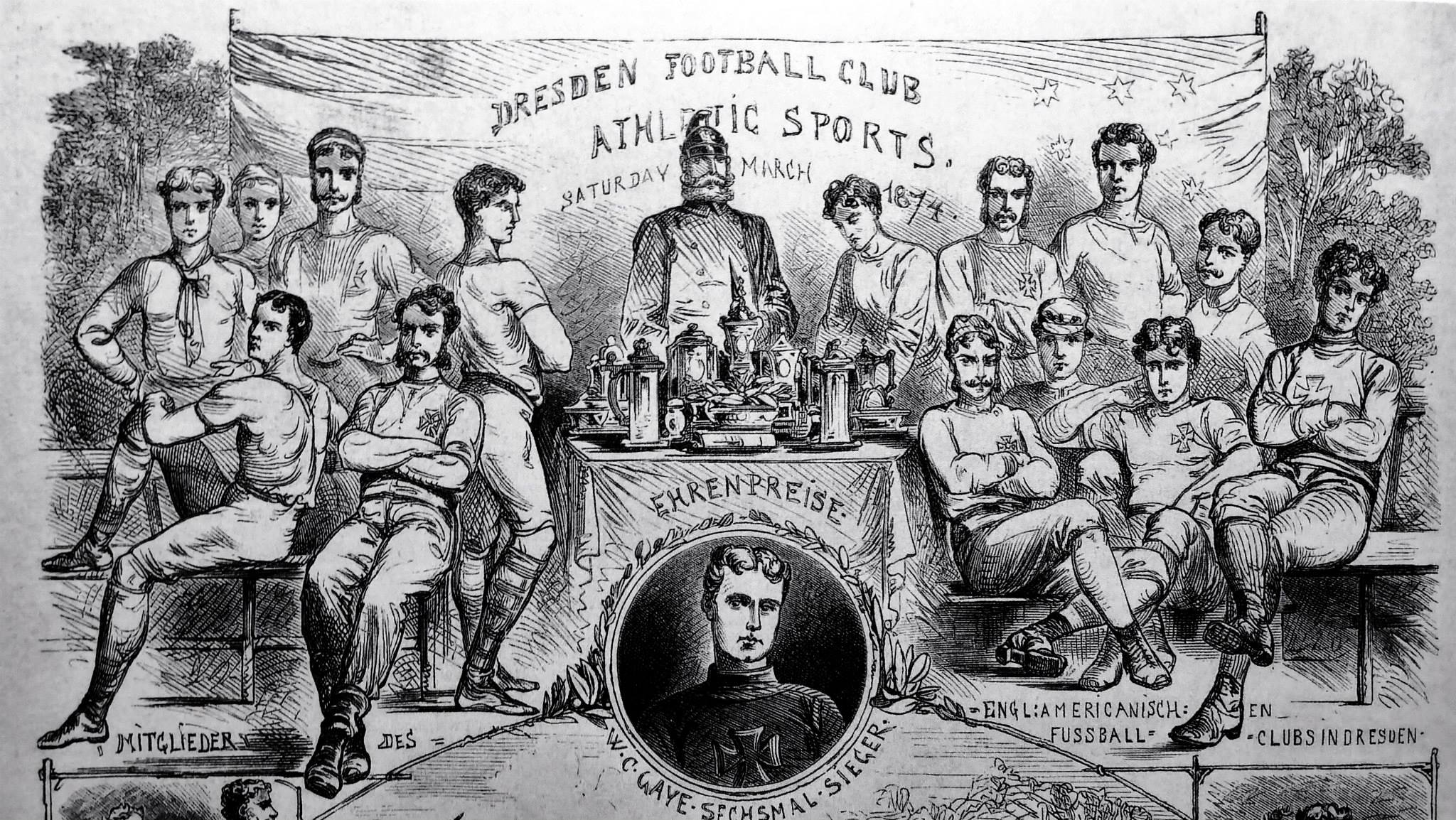 The Dresden Football Club team, a defunct club that was the first in Germany and likely the first outside Great Britain.